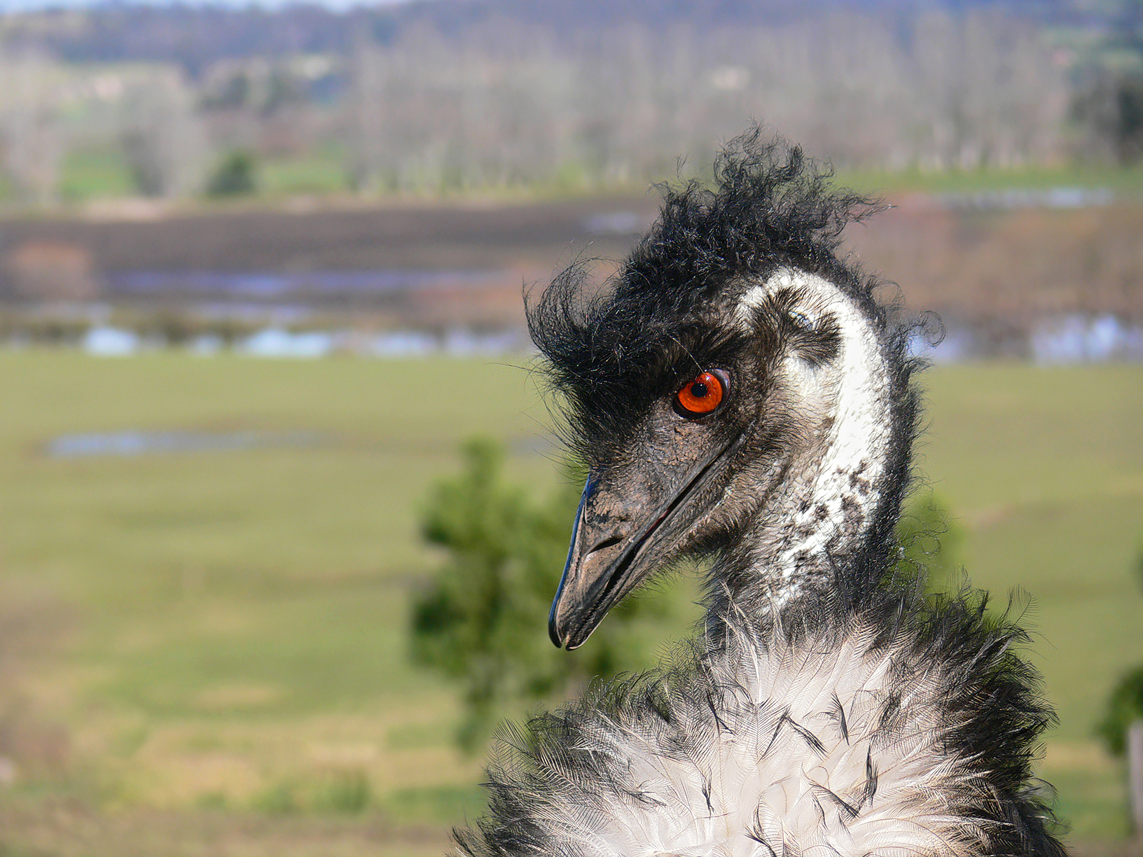 An Emu, Dromaius novaehollandiae, Showing facial detail, taken in South-eastern Australia